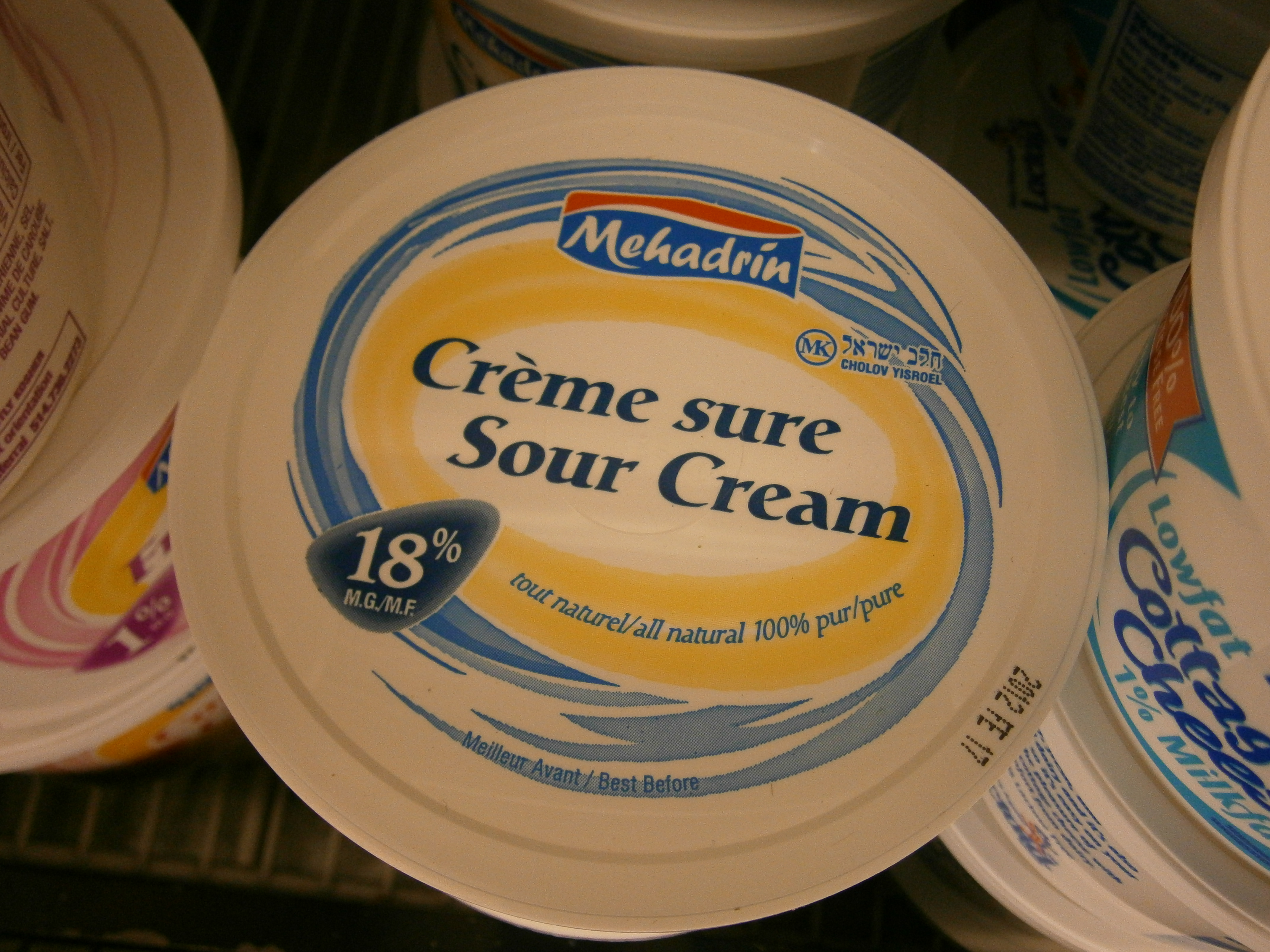 Sour cream sold in a Canadian supermarket, with the mention "cholov Yisroel", also translated into Hebrew.